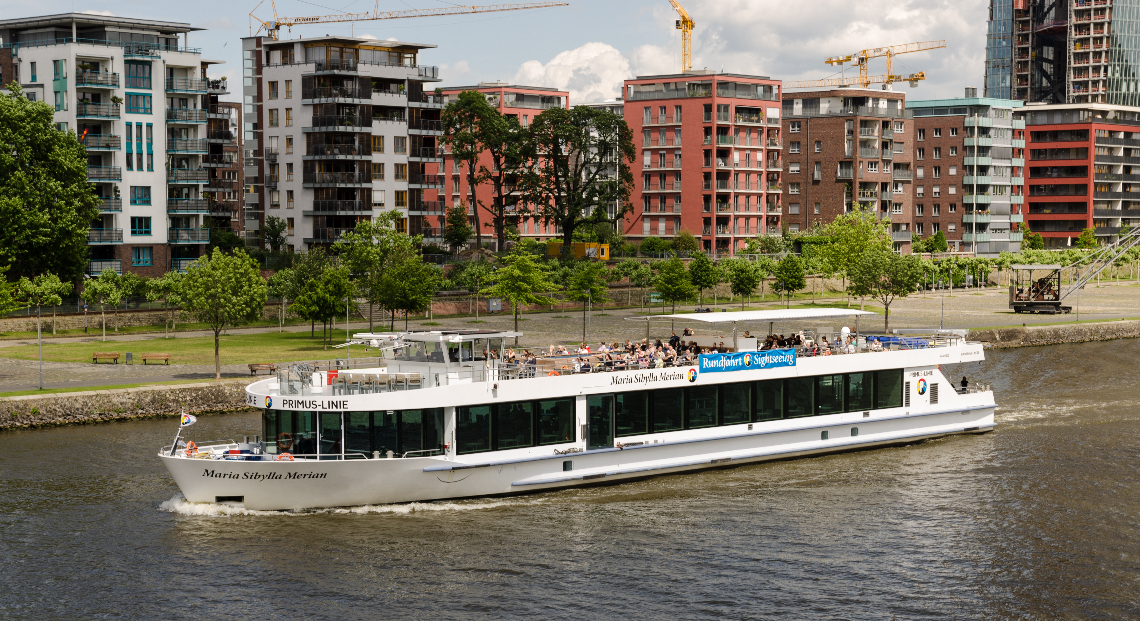 Maria Sybilla Merian - sightseeing ship of the Primus-line on the river Main in Frankfurt, Germany.